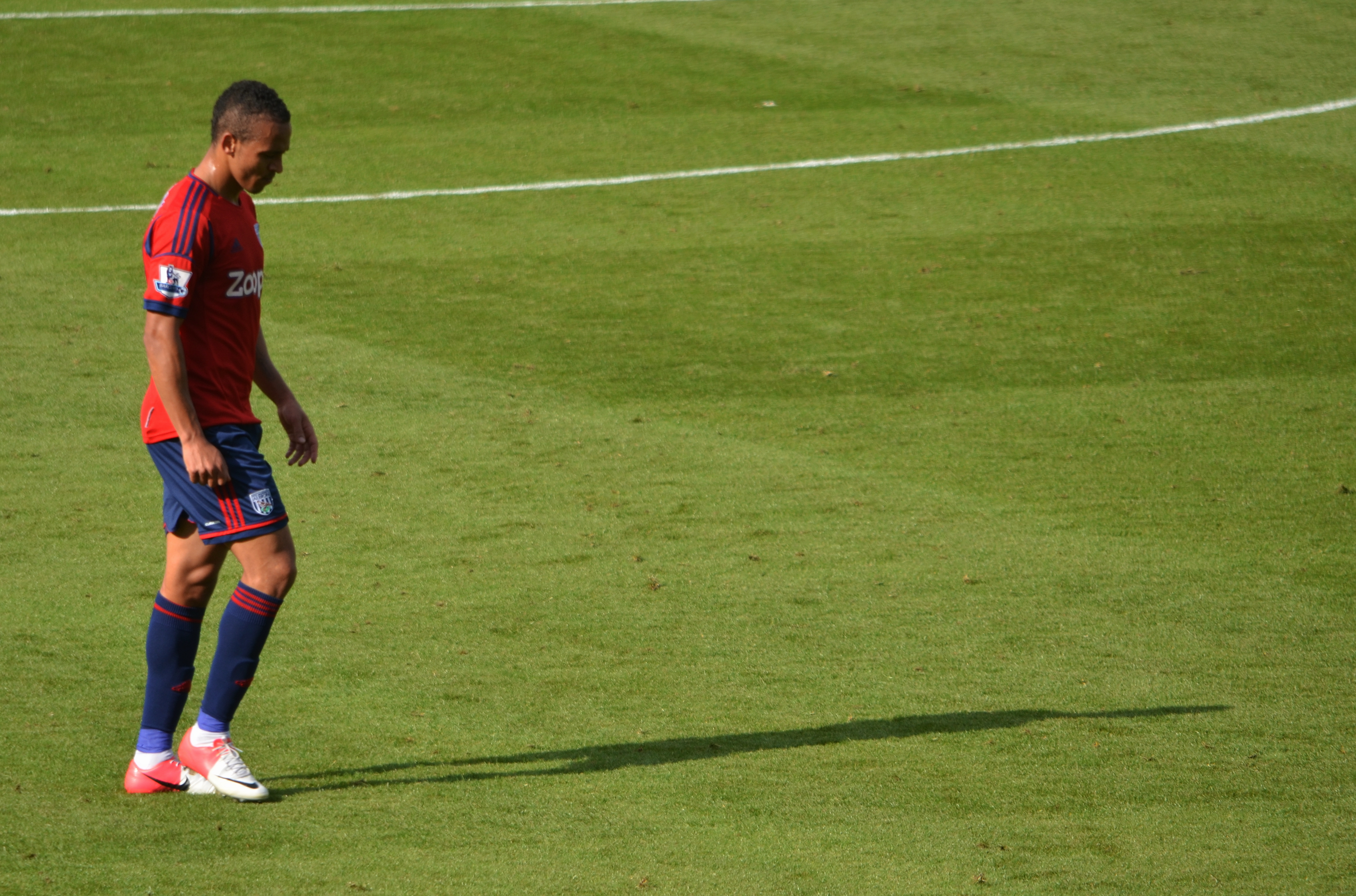 Odemwinge takes the lomb walk back to the dressing room after being sent off